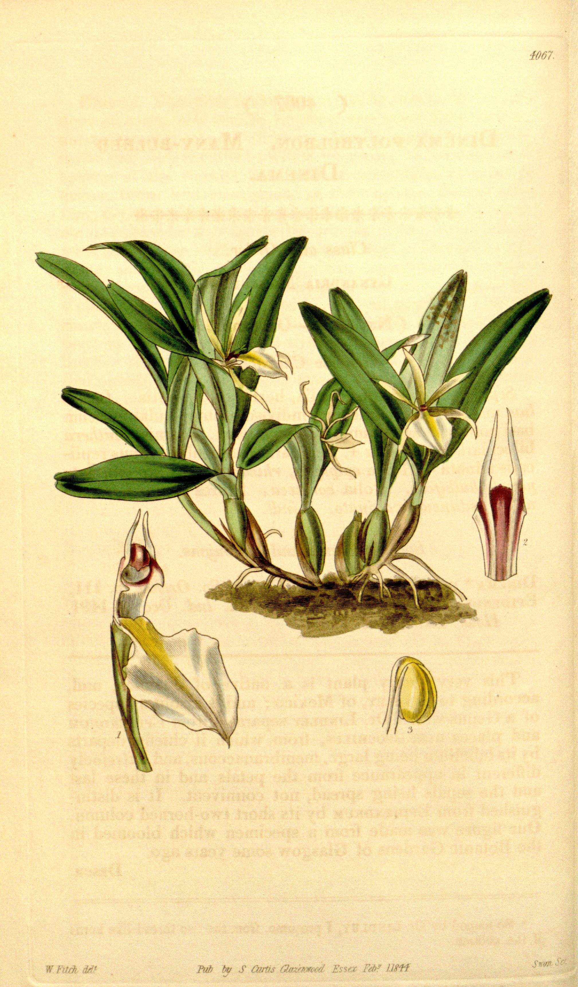 Illustration of Dinema polybulbon